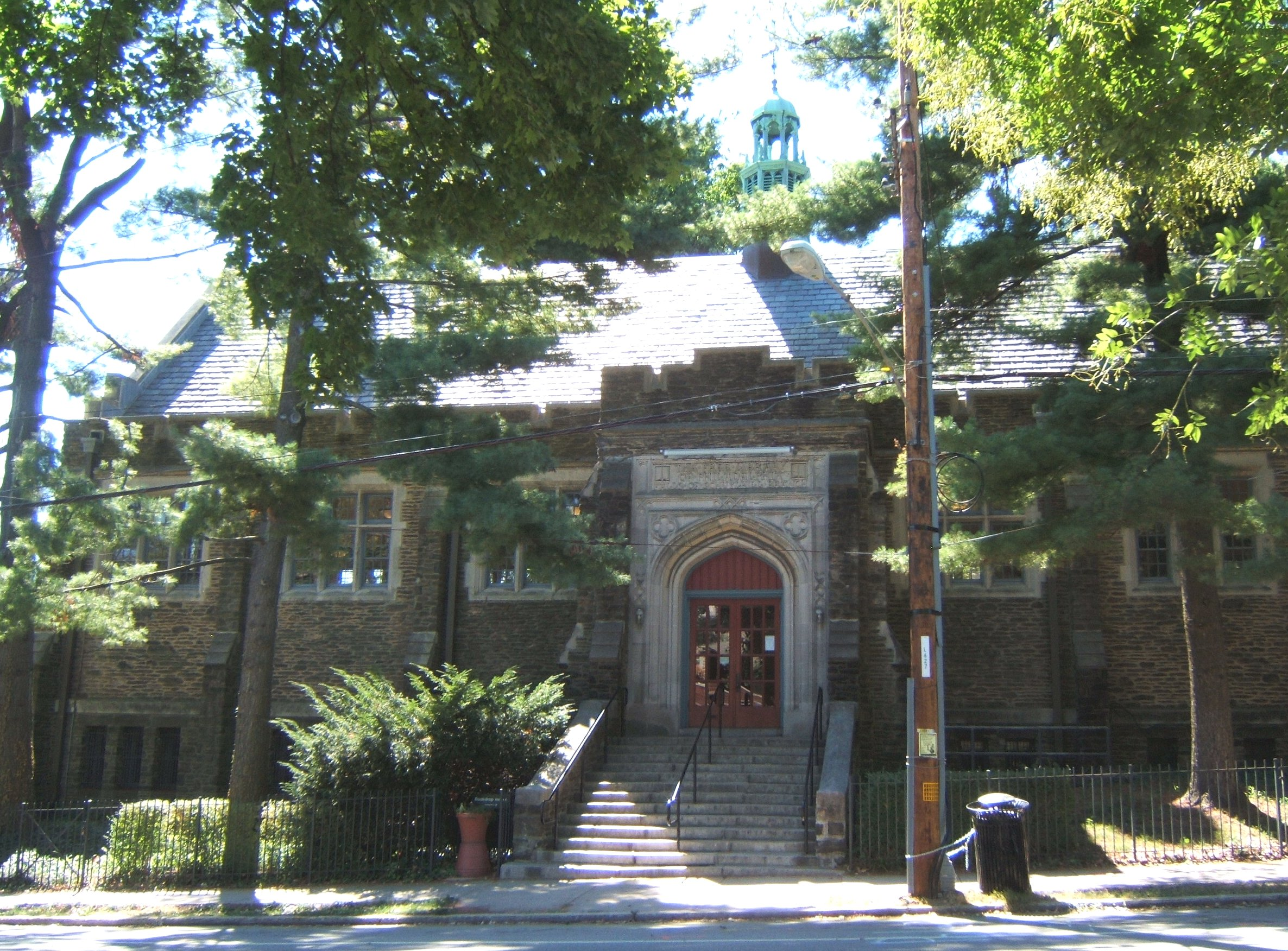 Free Library of Philadelphia, Falls of Schuylkill Branch, 3501 Midvale Avenue Philadelphia, PA 19129 Warden Drive side